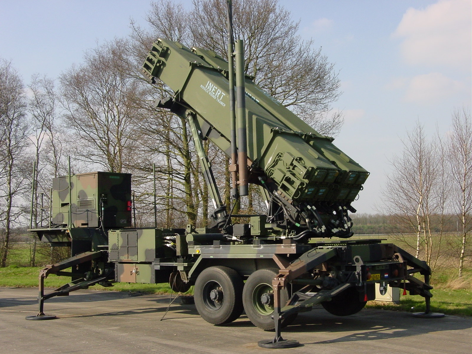 Dutch Patriot PAC-3 installation